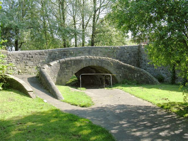 Former canal bridge over Morriston footpath The Swansea Canal is no more. At this point it has become a footpath. You'll have to stoop to pass under the bridge since the canal has been completely filled in.